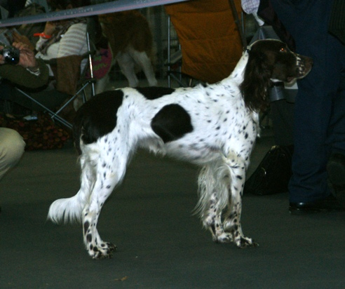 A French Spaniel female in France